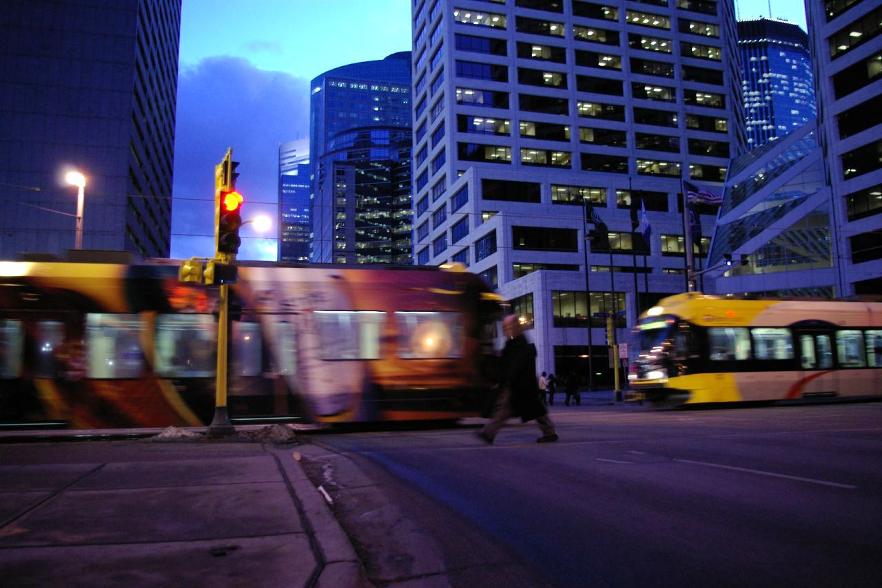 Metro Transit light rail, Minneapolis, Minnesota. Image is modified (brightness).